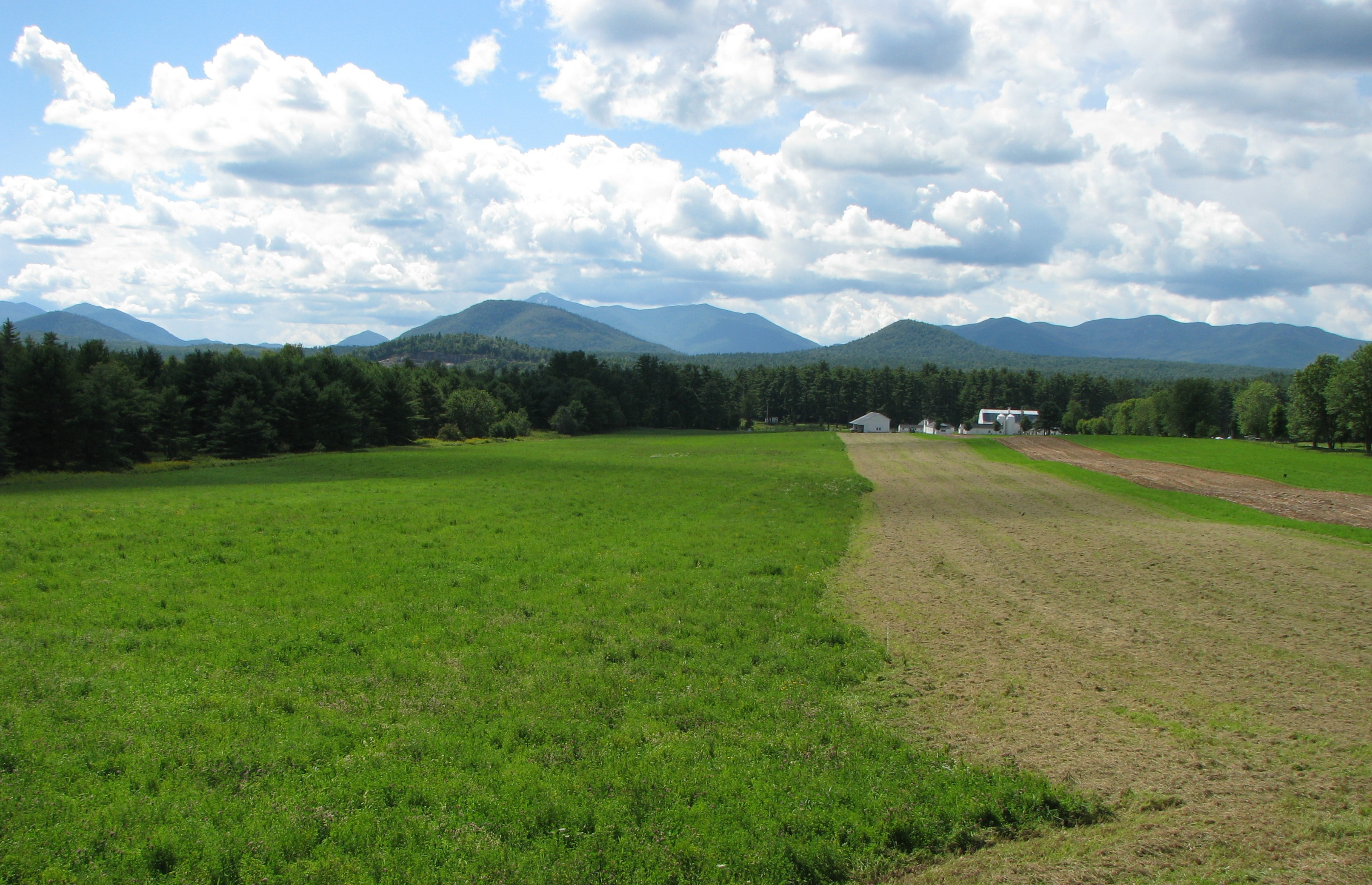 Rockwell Kent's Asgaard Farm, Sheldrake Road, Au Sable Forks, New York